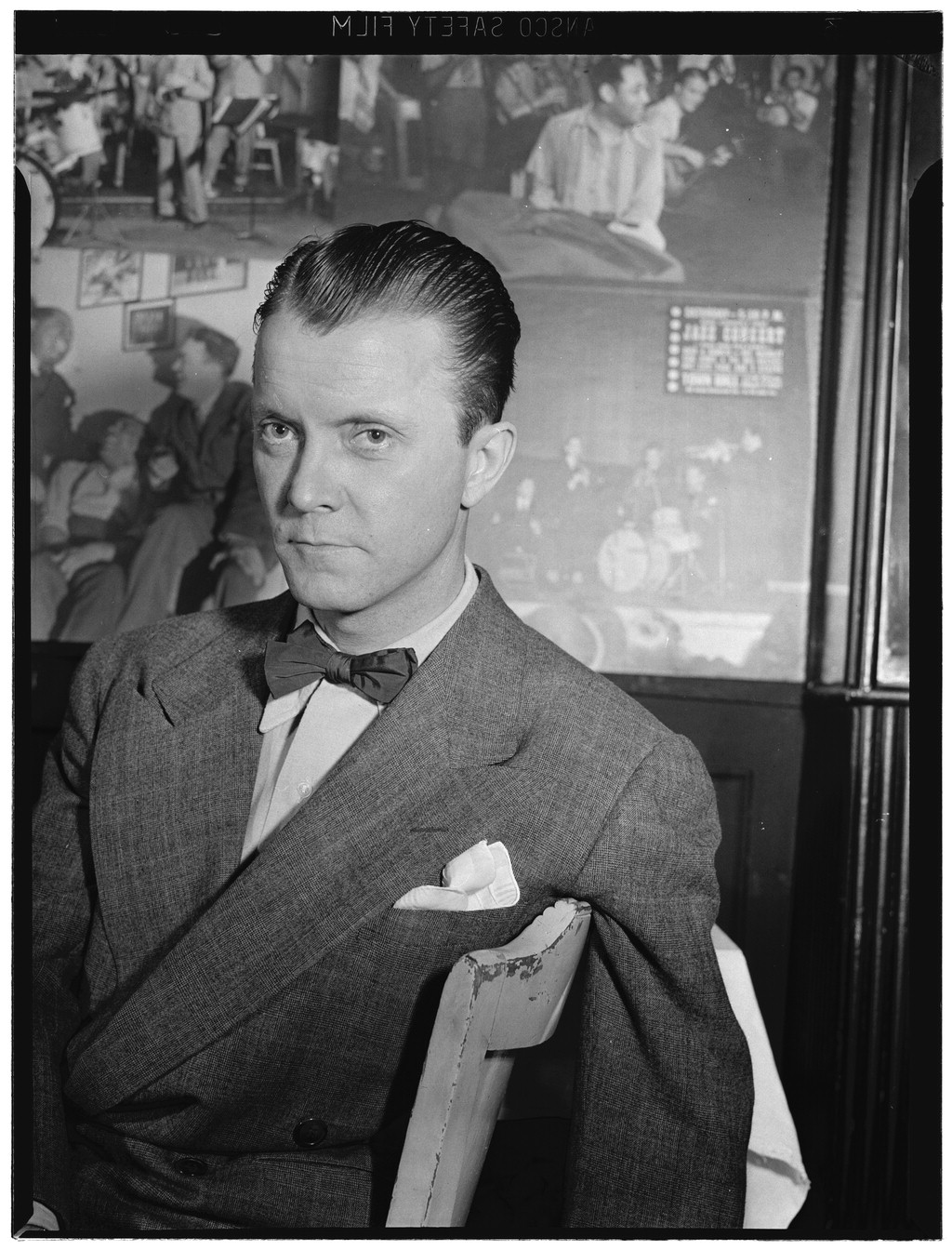 Eddie Condon, at Eddie Condon's, New York